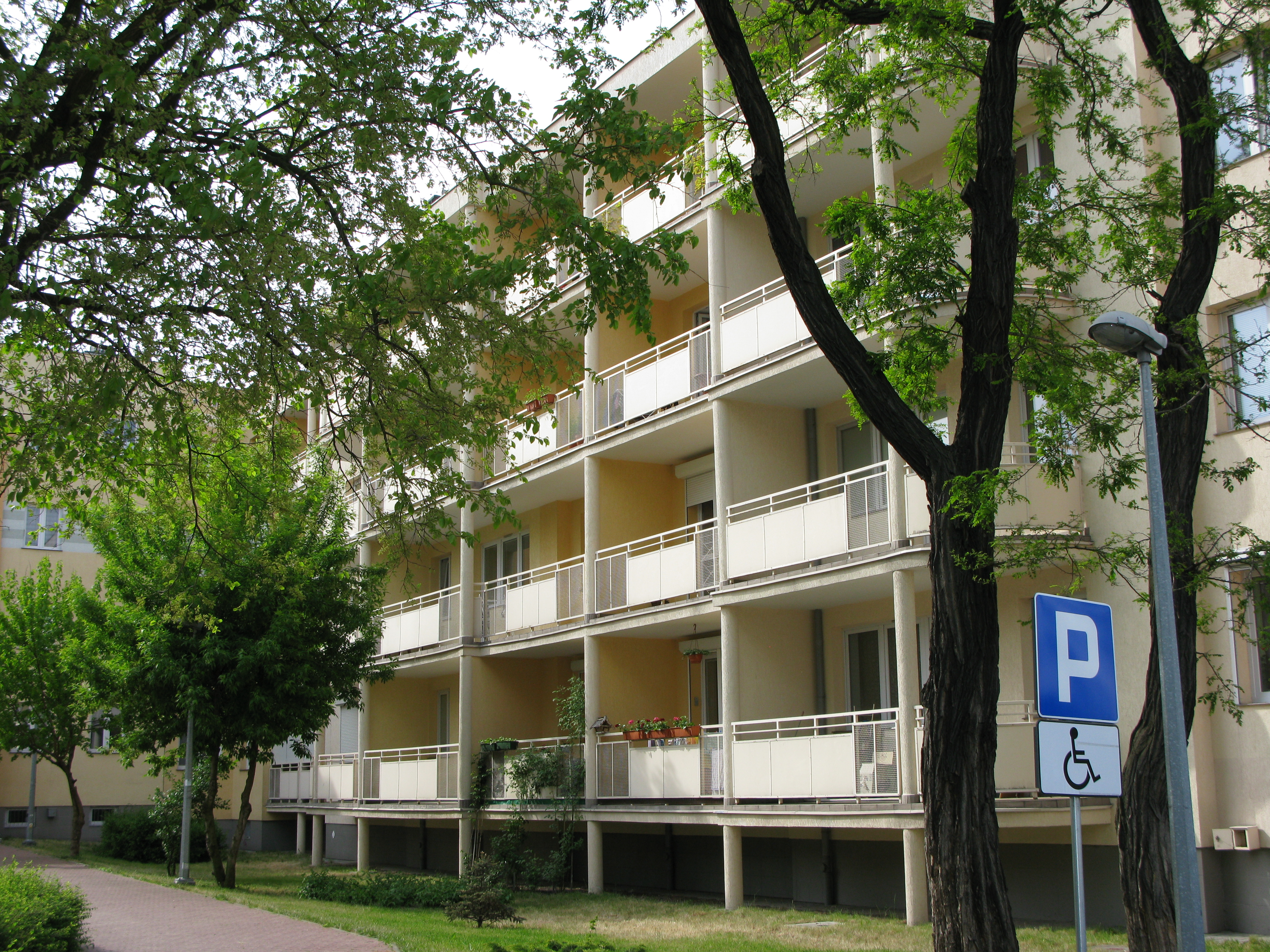 Block of flats - Kołłątaja Street, Toruń - Poland (Youth Housing Association)